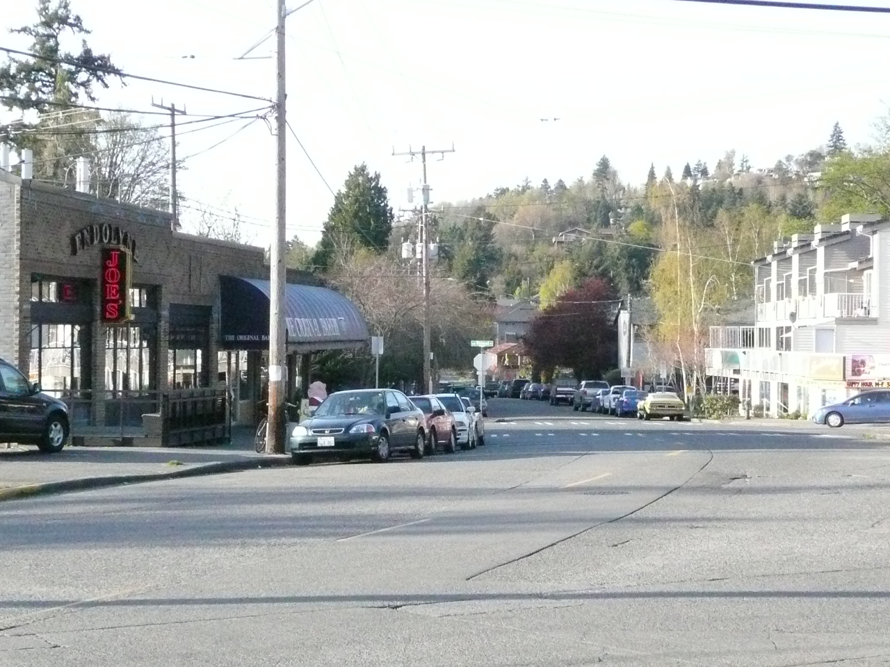 Seattle neighborhood of Fauntleroy, commercial area known as "Endolyne" for "end of the line", referring to streetcars.